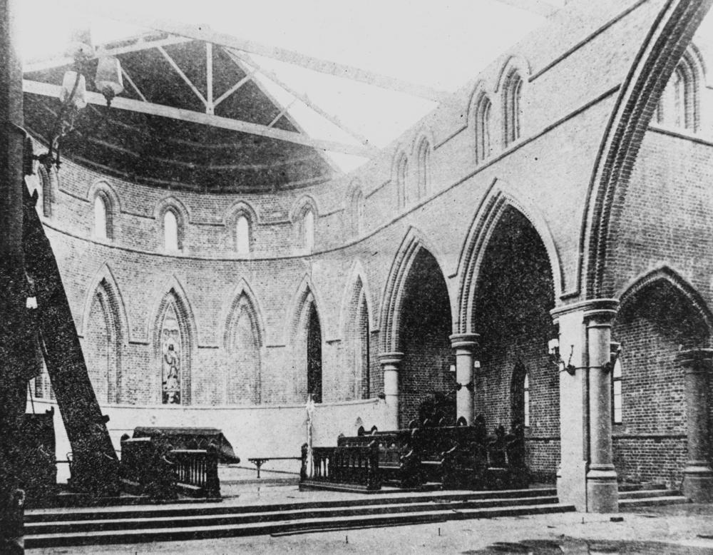 Storm damaged Anglican Cathedral, Townsville, 1903 View of the interior of the roofless Anglican Cathedral, Townsville, in the aftermath of Cyclone Leonta which struck on 9 March 1903.